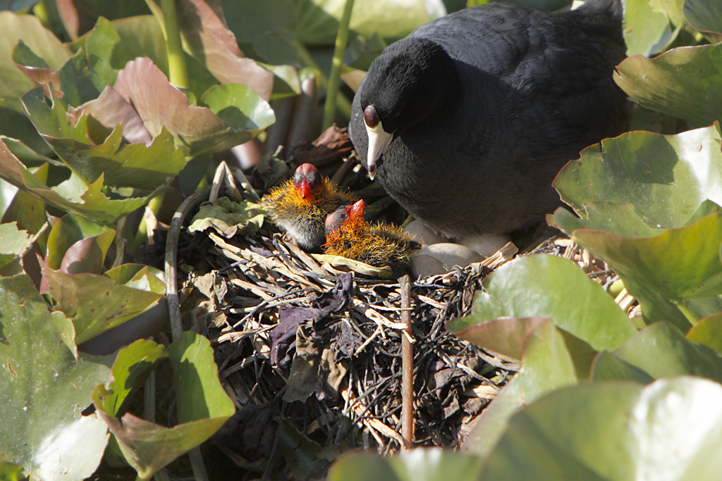 Two American Coot chicks sitting in the nest with their parent. Three eggs can also be seen.